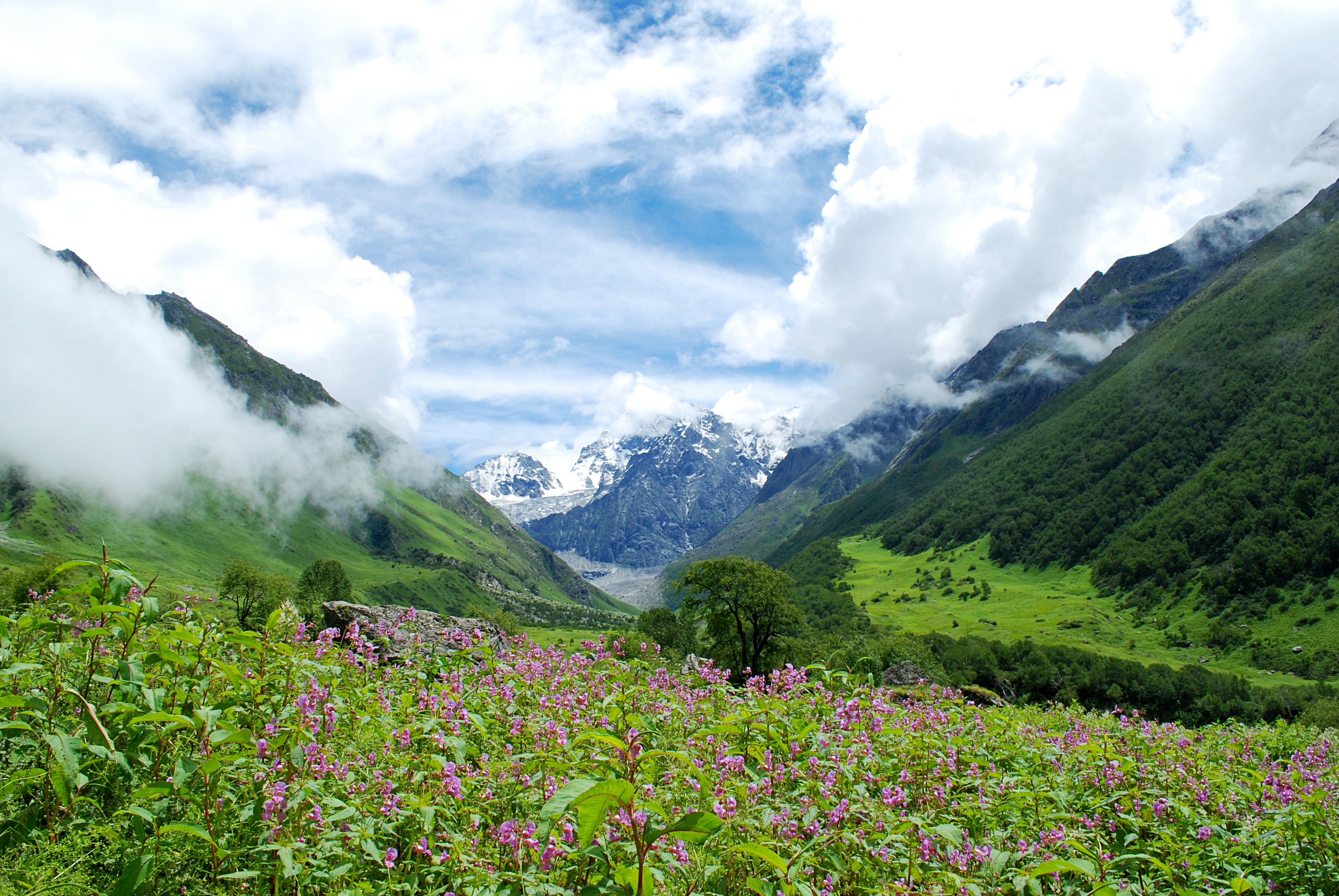 This alpine meadows in the Himalayas has long been on our wish list. On August 3rd, 2010, it was nothing short of a dream coming true! The biosphere was declared a UNESCO heritage site in 2005.